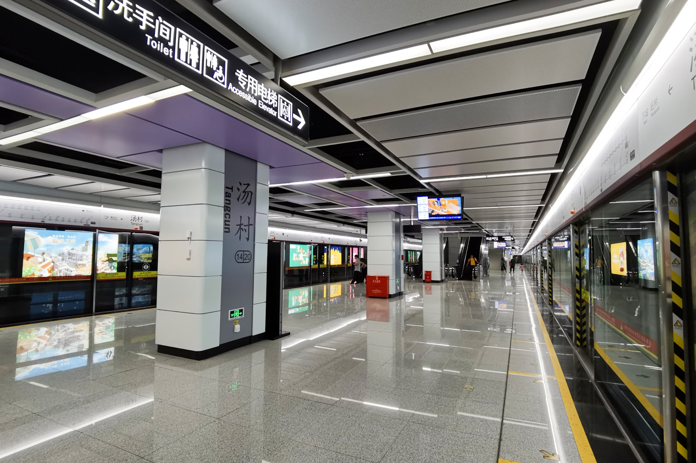 广州地铁汤村站